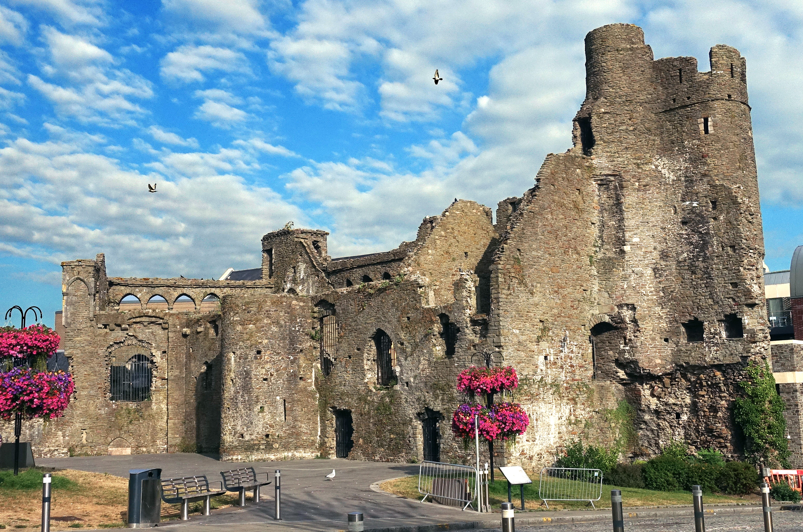 Swansea Castle Wikidata has entry Q7653666 with data related to this item.